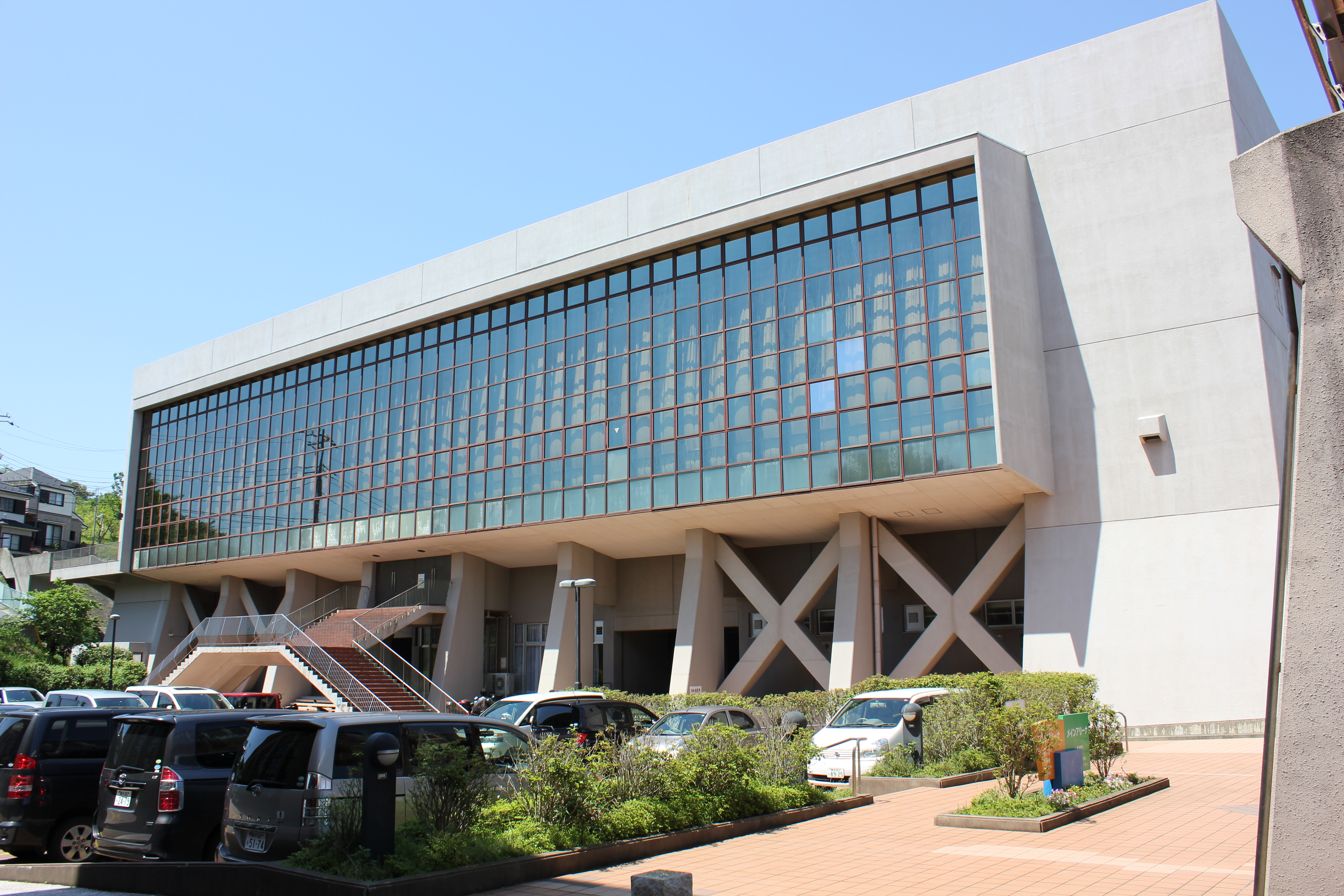 Iriyamazu Park Gymnasium